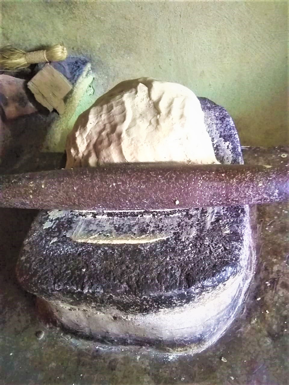 Ground corn dough on metate, San Juan Achiutla, Oaxaca, México.